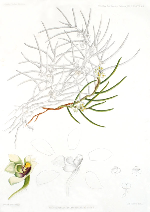 Gastrochilus inconspicuus